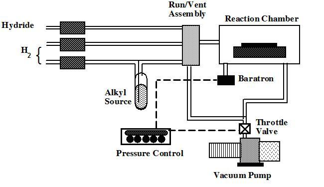 Author C. J. Pinzone